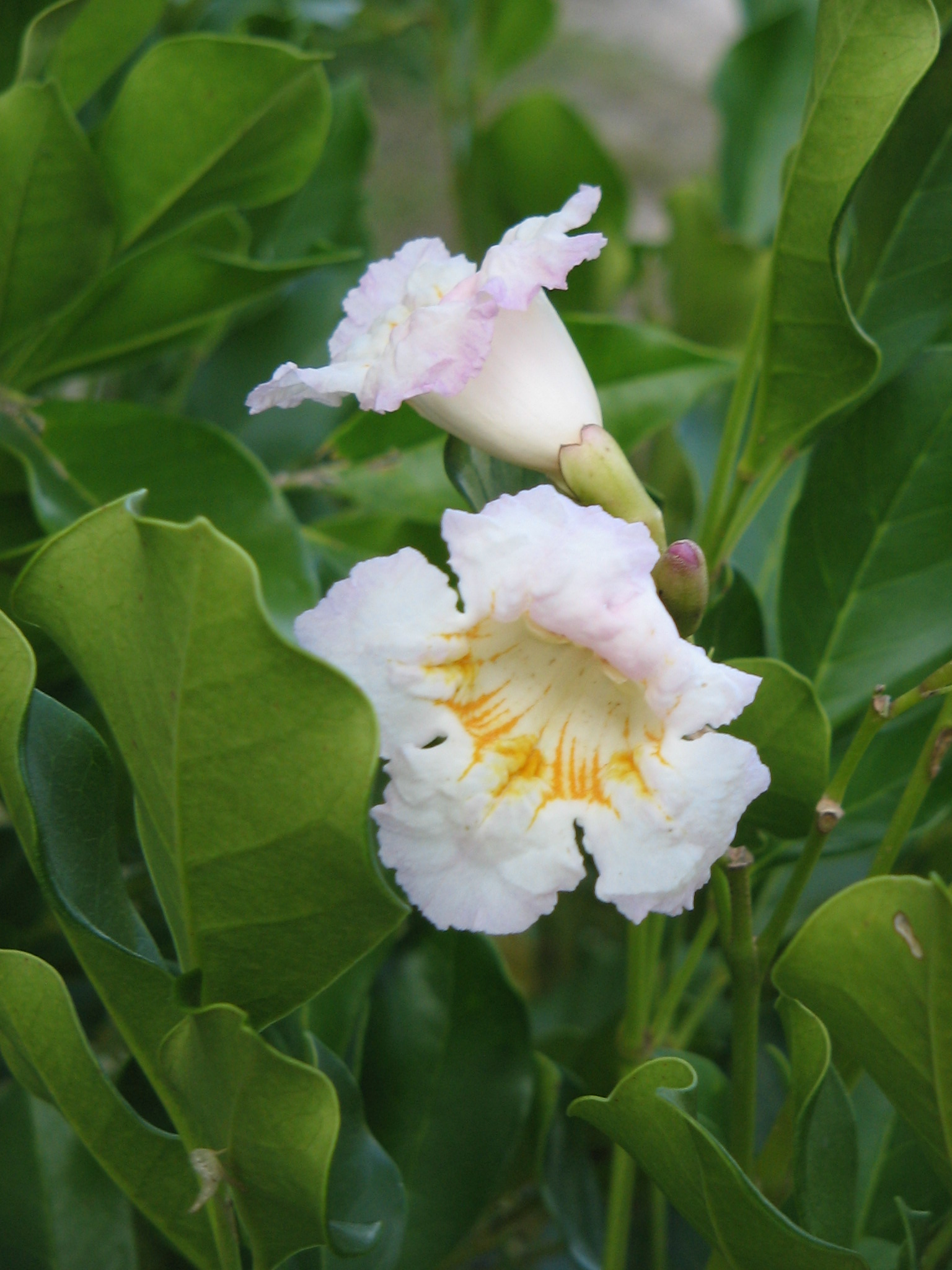 Tabebuia roseo-alba